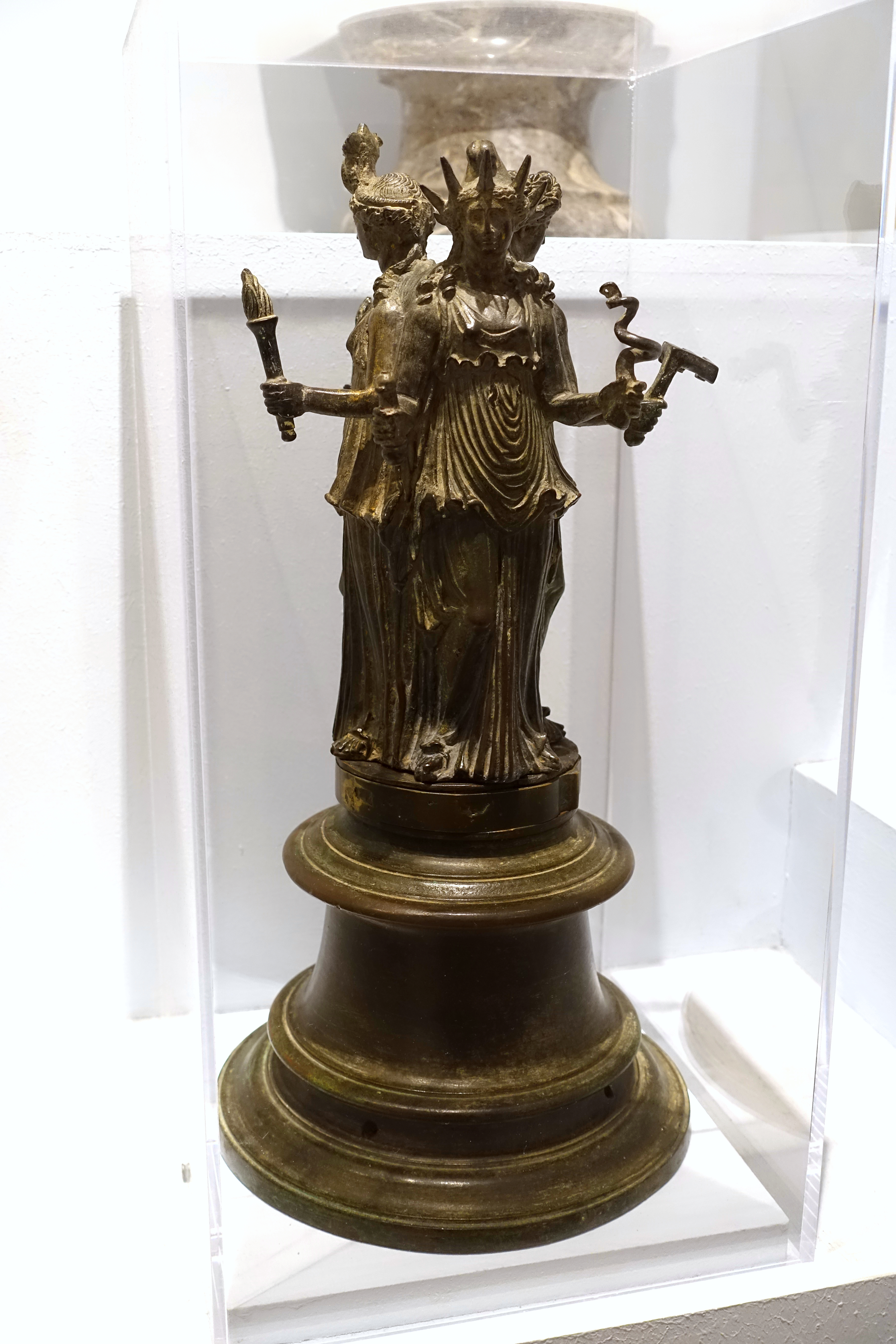 Exhibit in the Musei Capitolini - Rome, Italy.